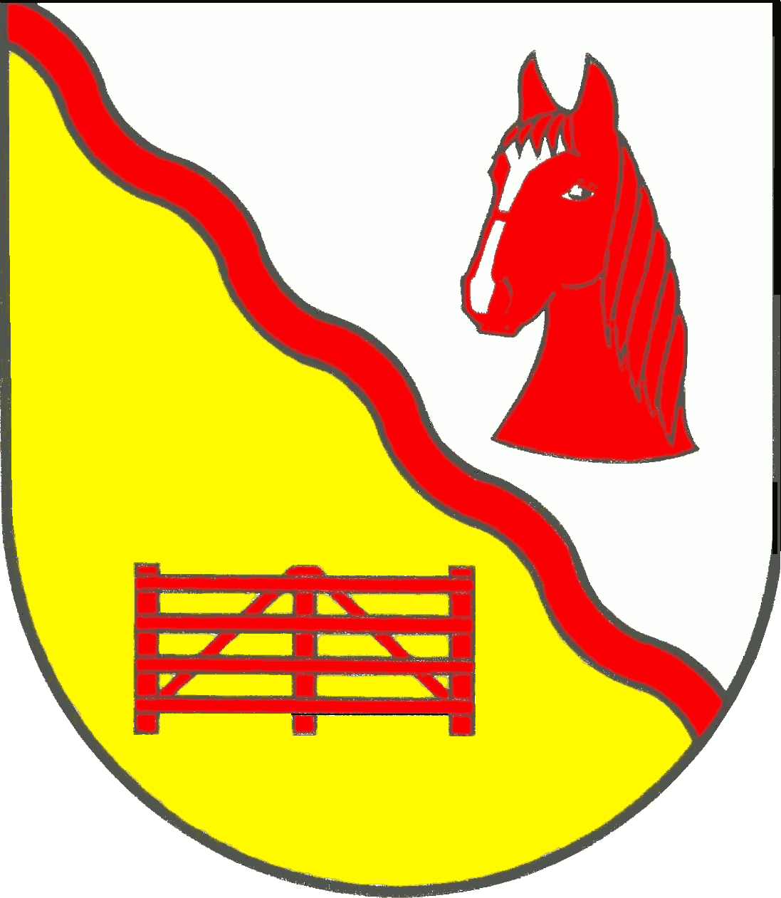 Coat of arms of the municipality Havetoft in Schleswig-Holstein, Germany.